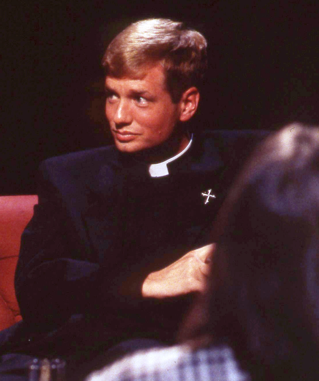 Anthony Fisher appearing on After Dark on 30 May 1994, more here.